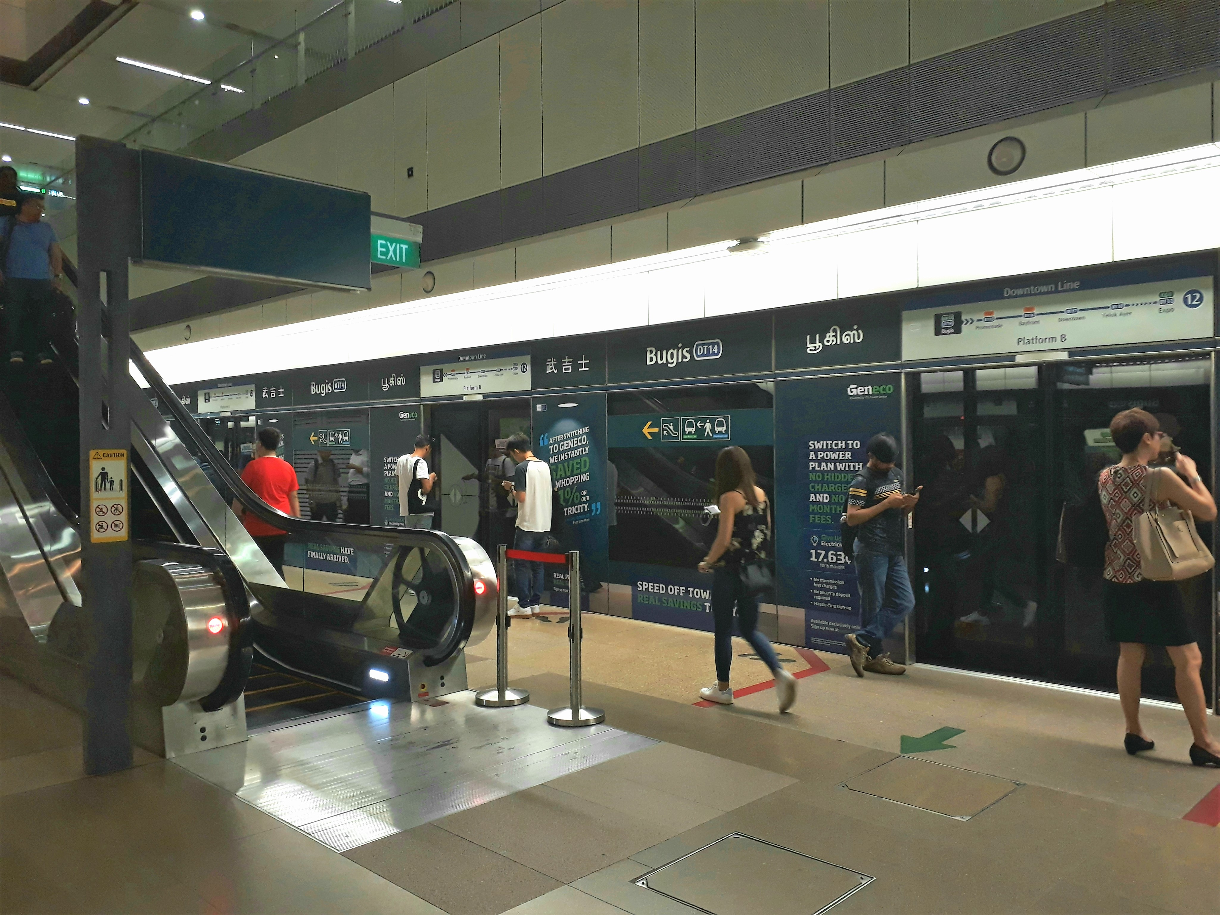 Bugis MRT Station Escalator DTL